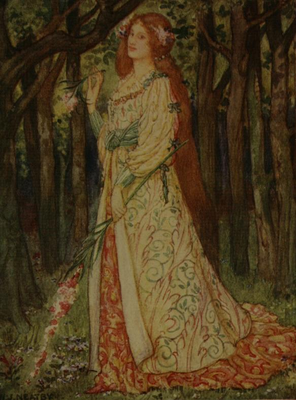 Illustration of poem by John Keats